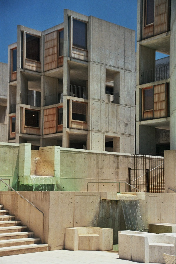 Courtyard, western fountain, and the concrete and teak facades — Salk Institute for Biological Studies, La Jolla, California.